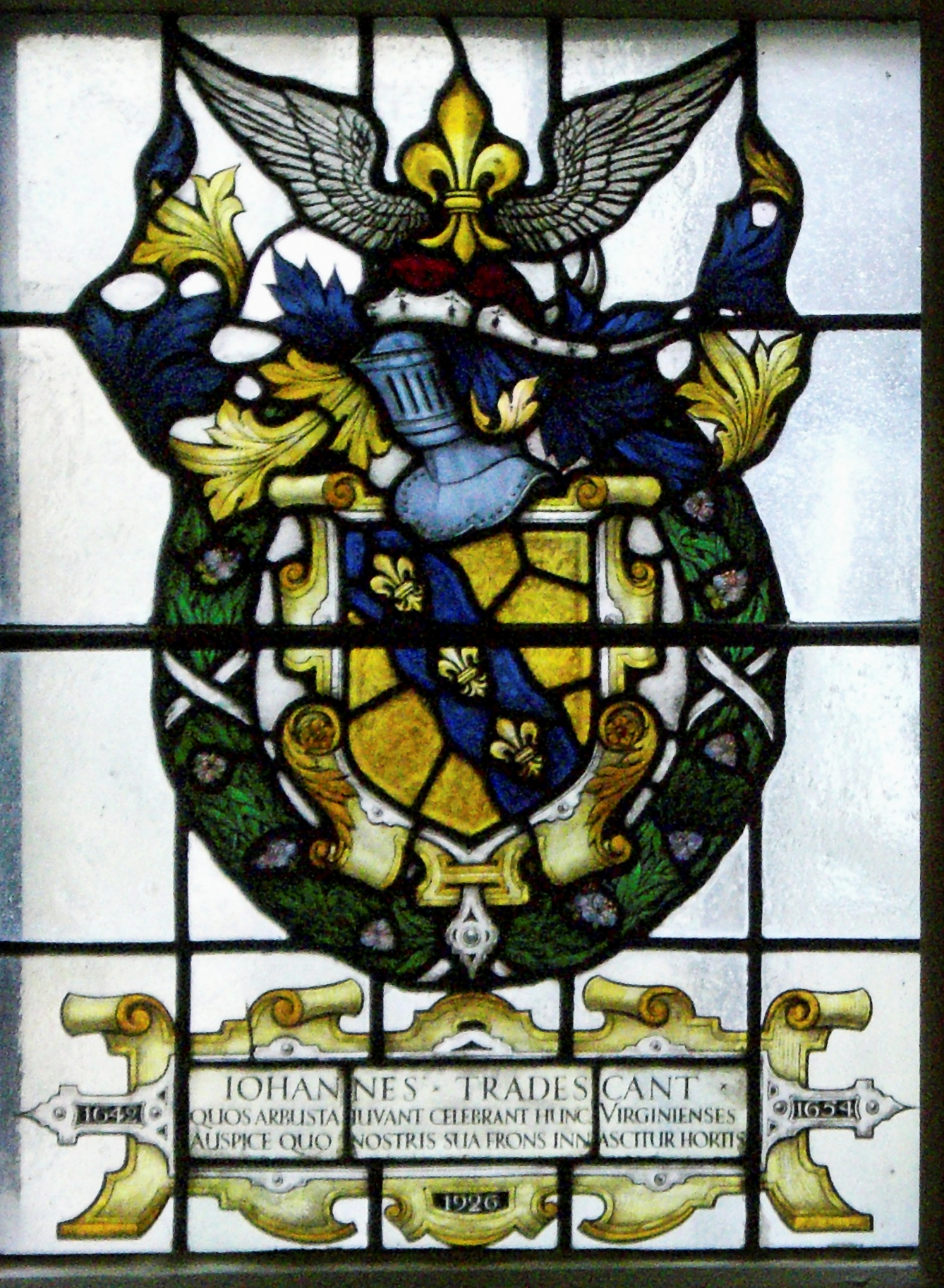 Stained glass windows in the Museum of the History of Science, showing the coat of arms of John Tradescant